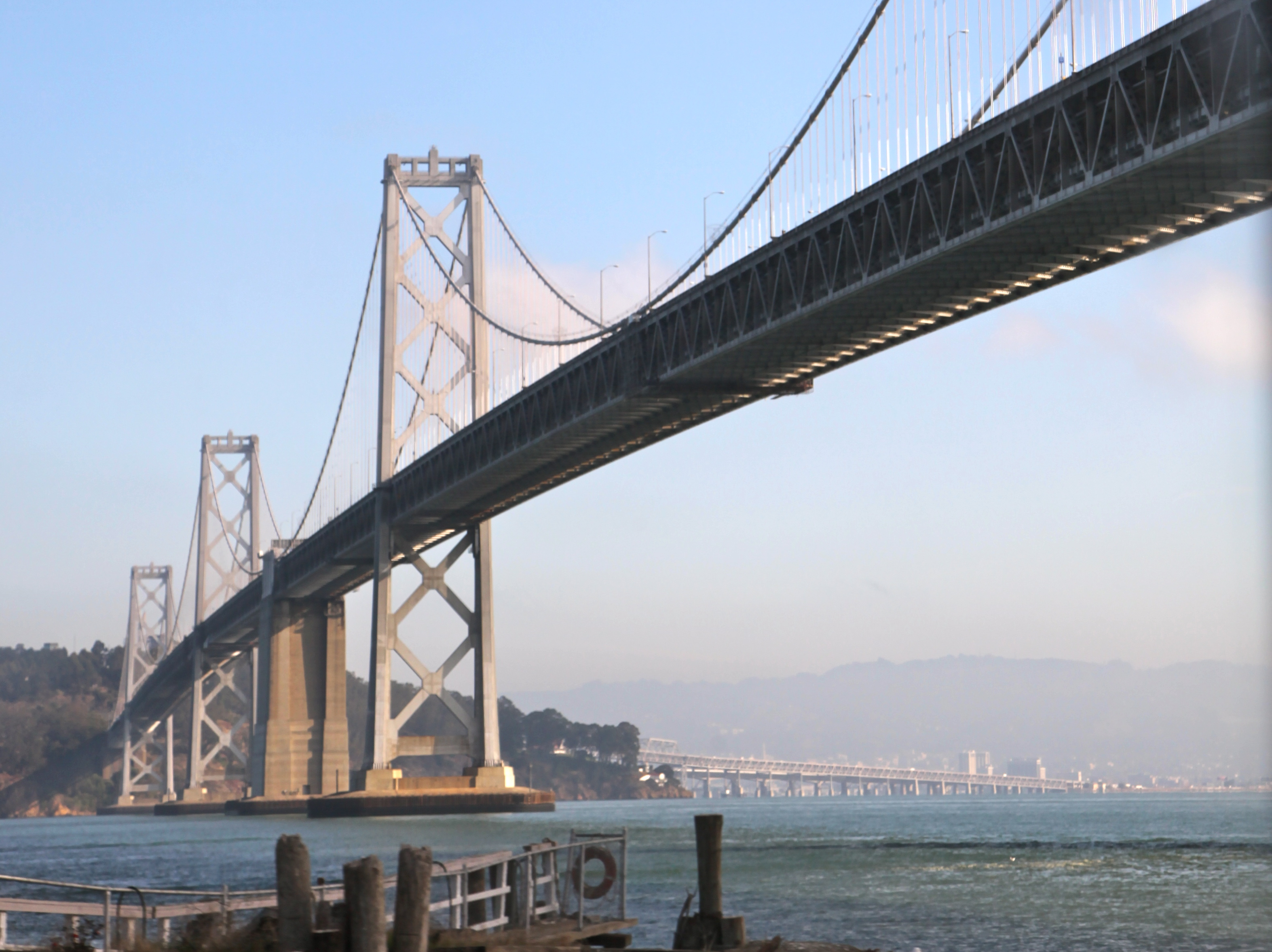 san francisco bay bridge views